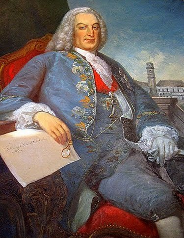 na universidade